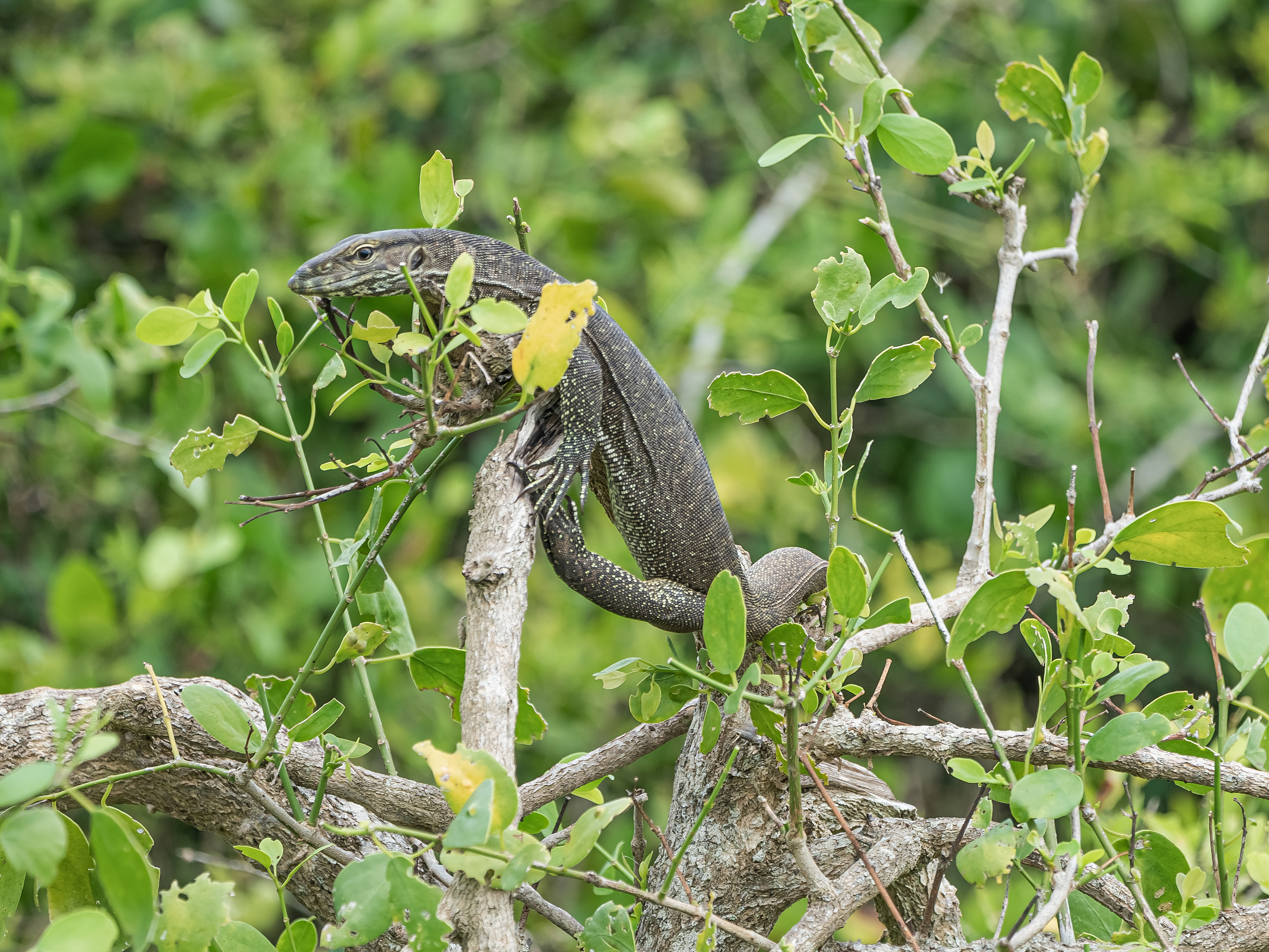 Bengal Monitor (immature) in Bundala National Park, Sri Lanka